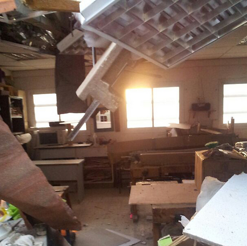 School in Rishon LeZion in central Israel after being hit by a Gaza rocket.